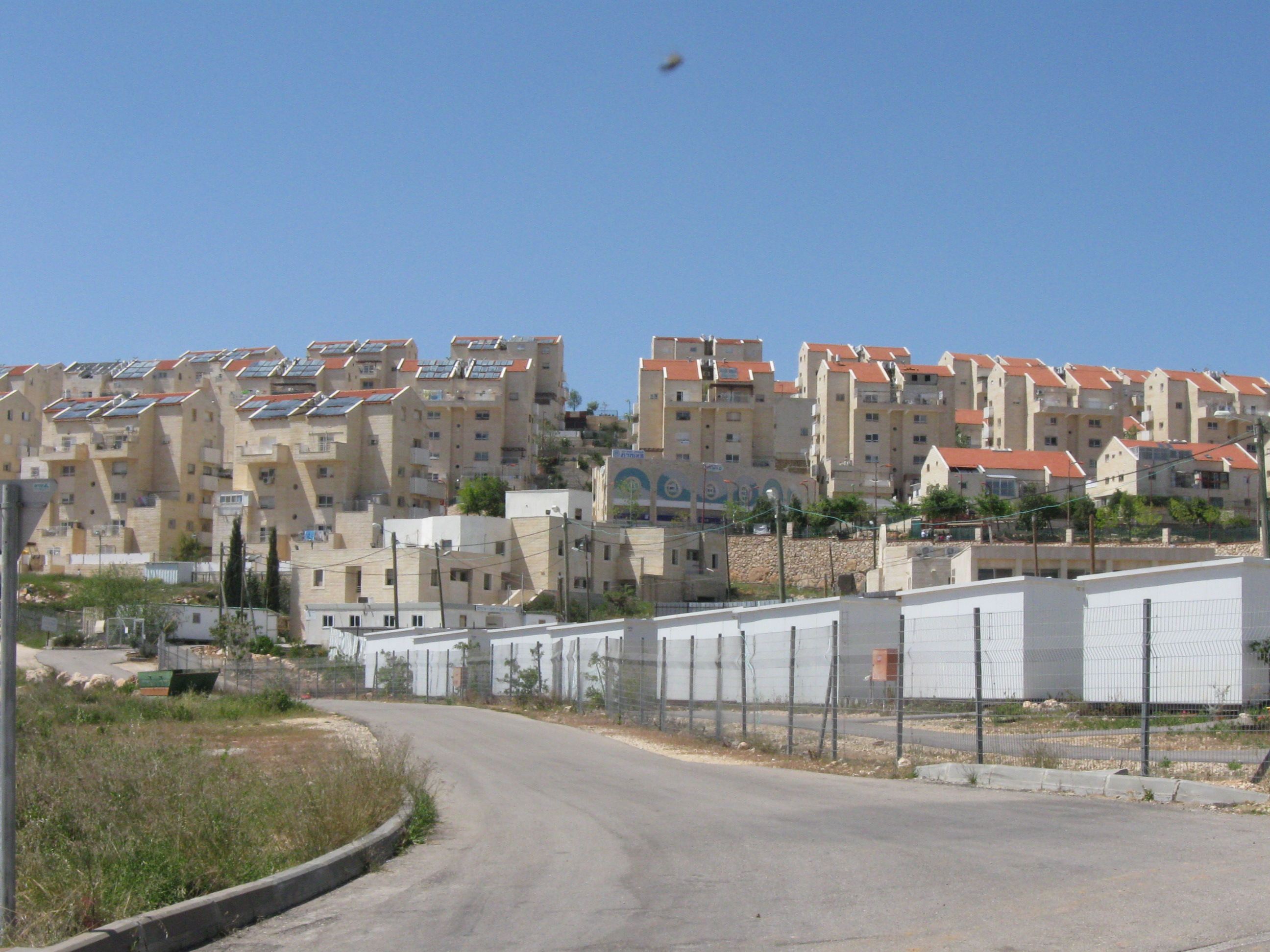 View of Tel Zion, West Bank, with school classrooms in white caravanim on the perimeter (lower right)